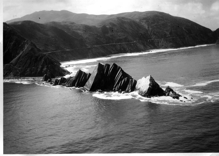 Aerial photo of Big Sur taken during the 1930's. Photo taken by Philip B. Foote, photo owned by Googie Man